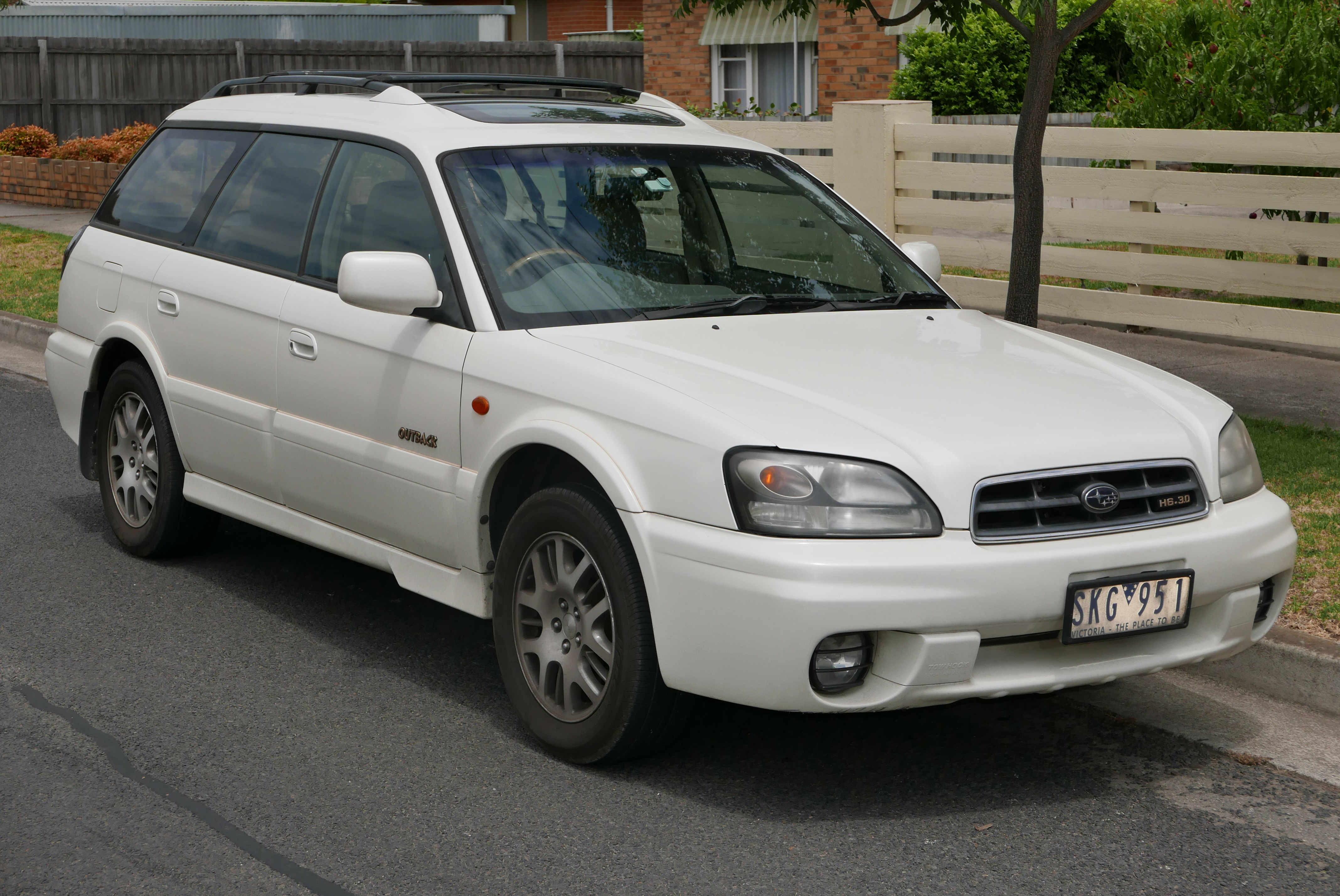 2003 Subaru Outback (BHE MY03) H6 Luxury 3.0 station wagon. Photographed in Pascoe Vale, Victoria, Australia. Vehicle registration enquiry results Jurisdiction Victoria Registration SKG951 Chassis code JF2BHEKEA3G062161 Engine code U072771 Compliance date 2003-03 Year of manufacture 2003